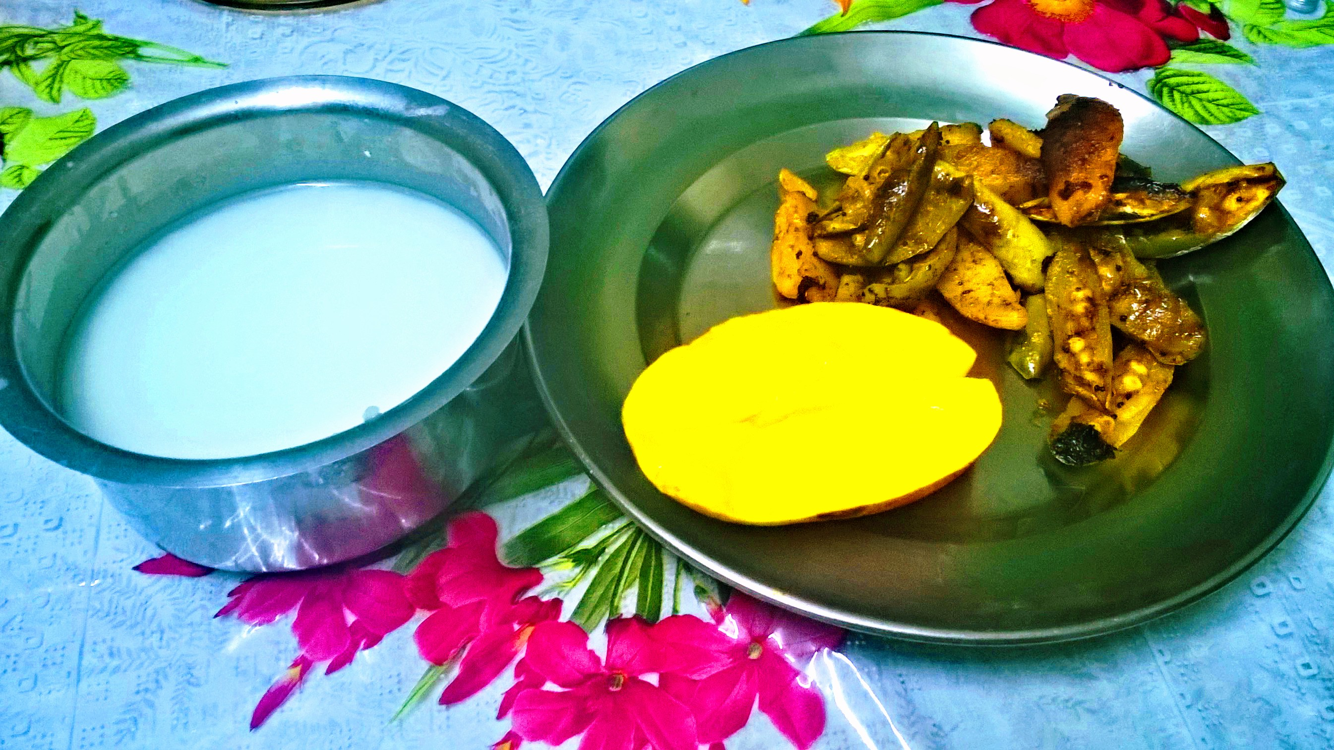 This is a typical summer-time Odia cuisine. Watered-rice also known as 'Pakhala' along with Sabzi('Bhaja' in Odia) and a pair of chilled Mango slices. The vegetables in 'Bhaja' may vary. In here, there are Potatoes and Pointed Gourds seasoned with spices. This lunch is often preferred to beat the summer heat among the Odias. ଓଡ଼ିଆ: ପଖାଳ ସହିତ ଭଜା ଏବଂ ଆମ୍ବ କଟା